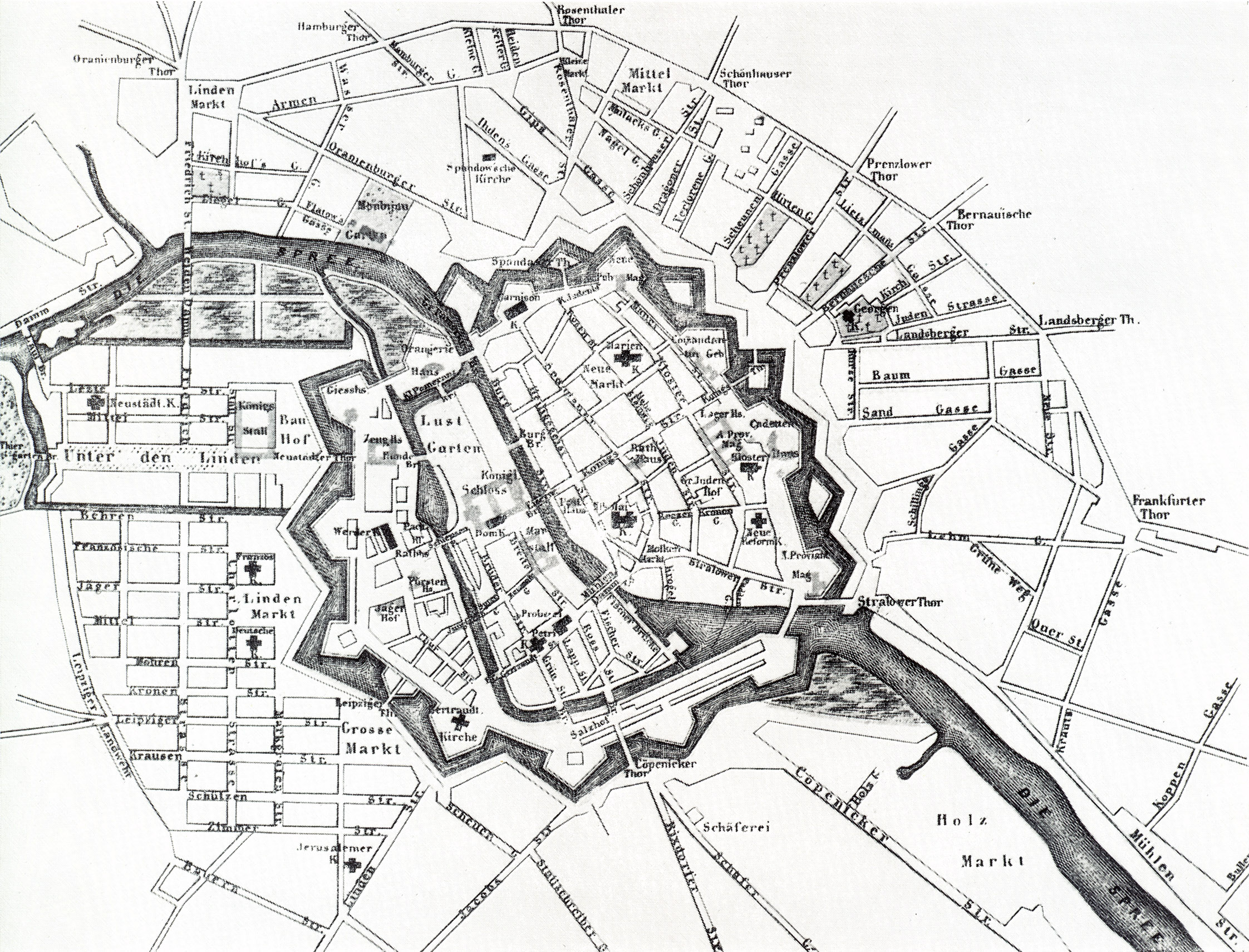 Map of Berlin from 1710, reconstruction.